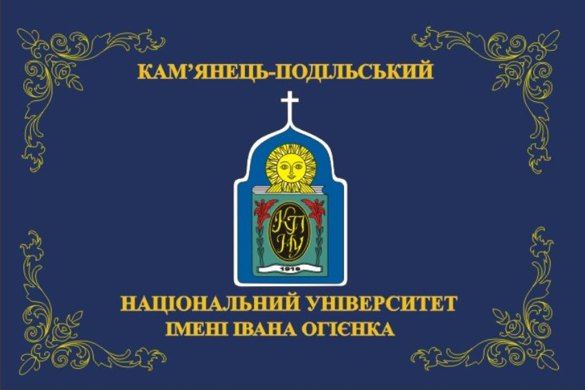 the flag of Kamyanets-Podilsky Ivan Ohienko National University